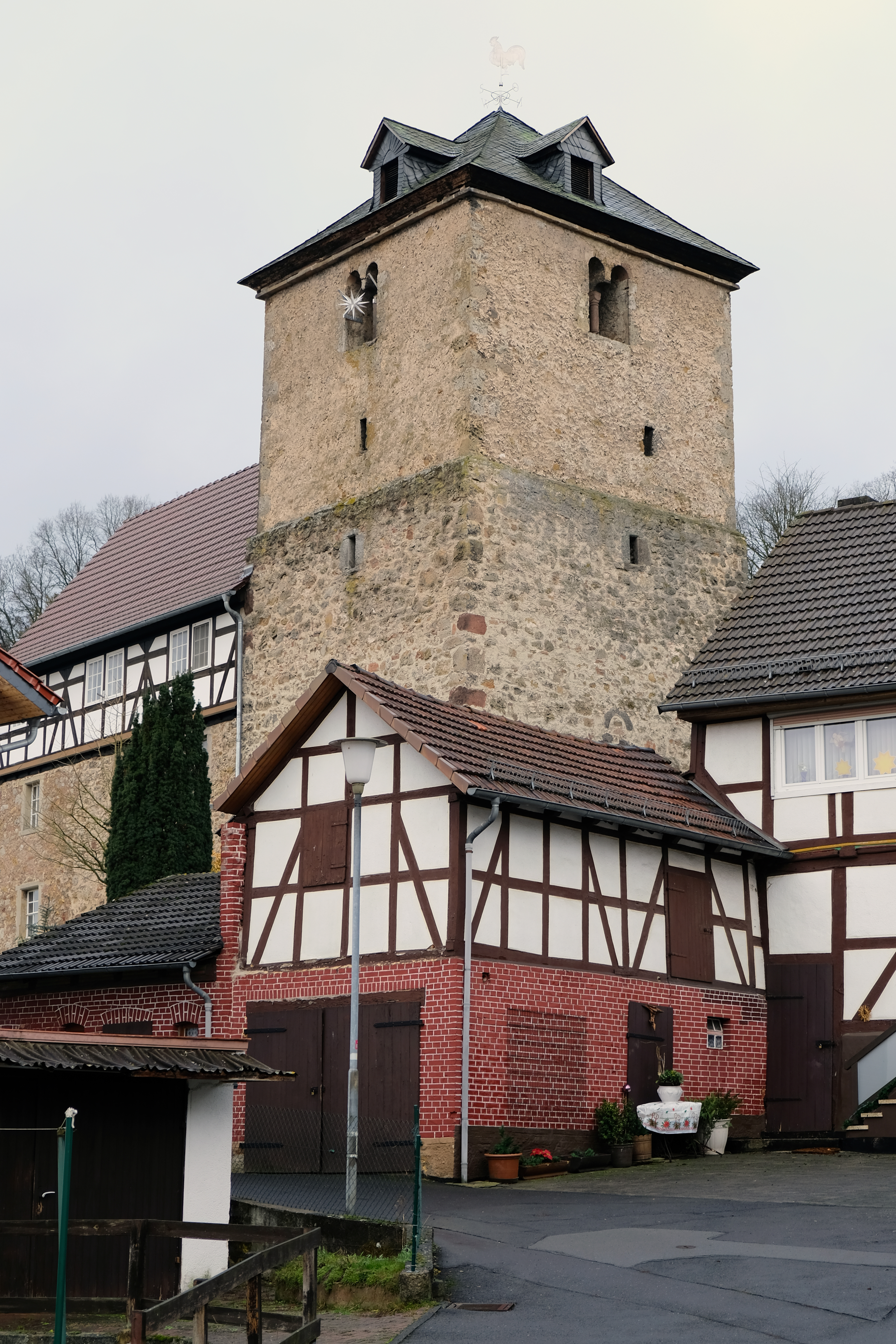 Church of Gilfershausen